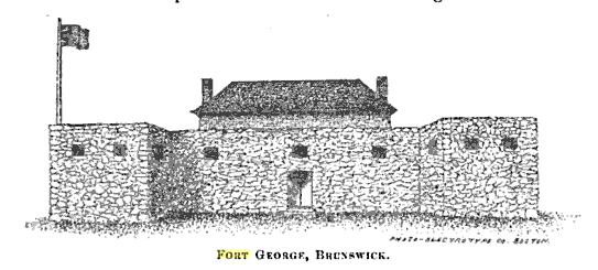 Fort George, Brunswick, Maine c. 1715 fromHistory of Brunswick, Topsham, and Harpswell, Maine: Including the Ancient ... By George Augustus Wheeler